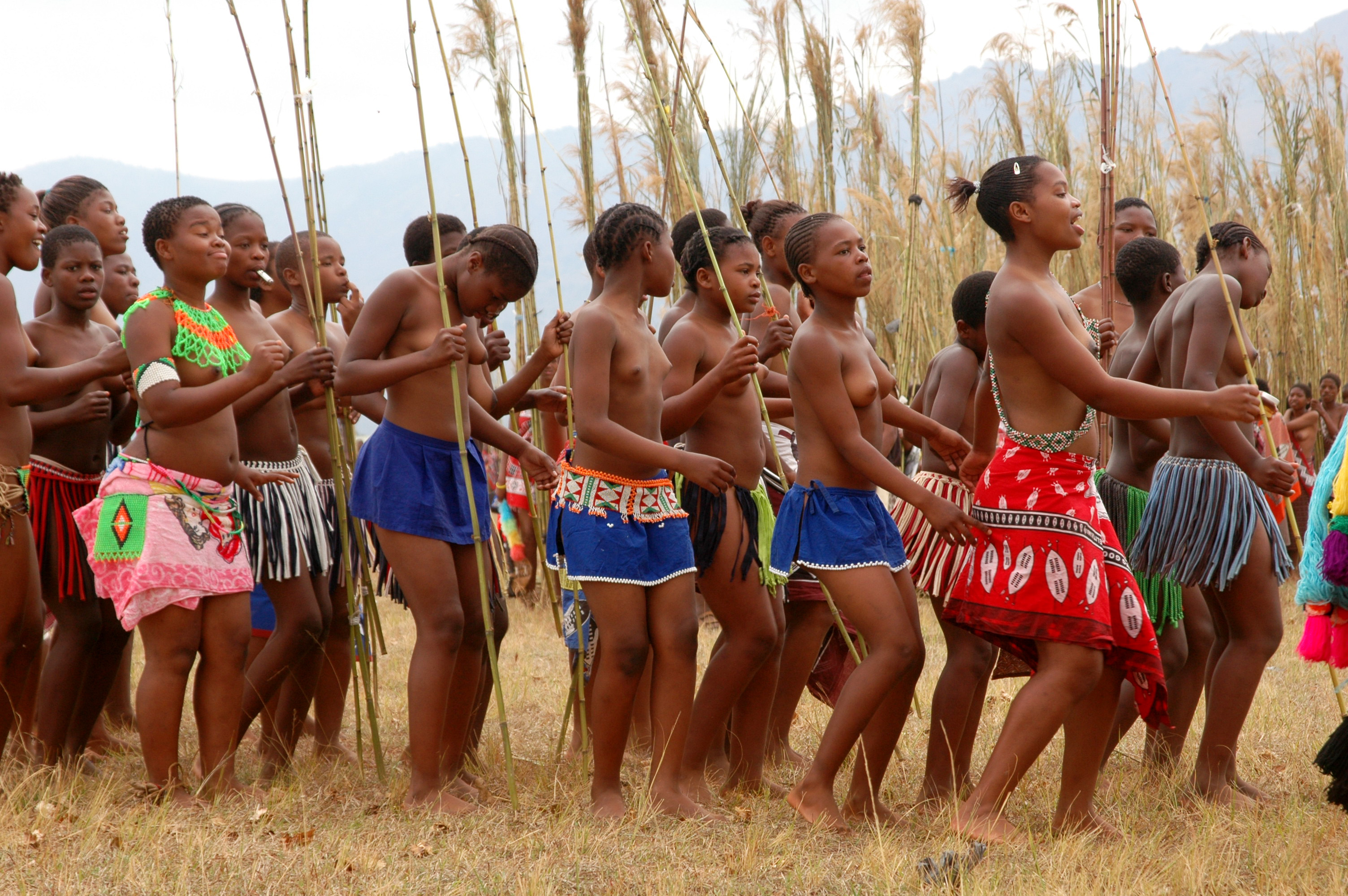 The Reed Dance Festival 2006